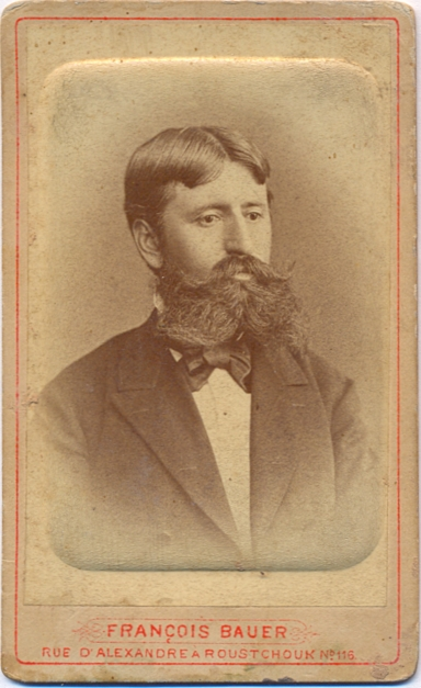 Bulgarian politician and Mayor of Roussee (1841-1900)